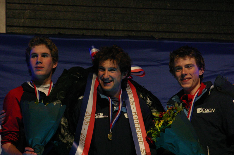 Top-3 final ranking men Dutch Championships Short Track Speed Skating